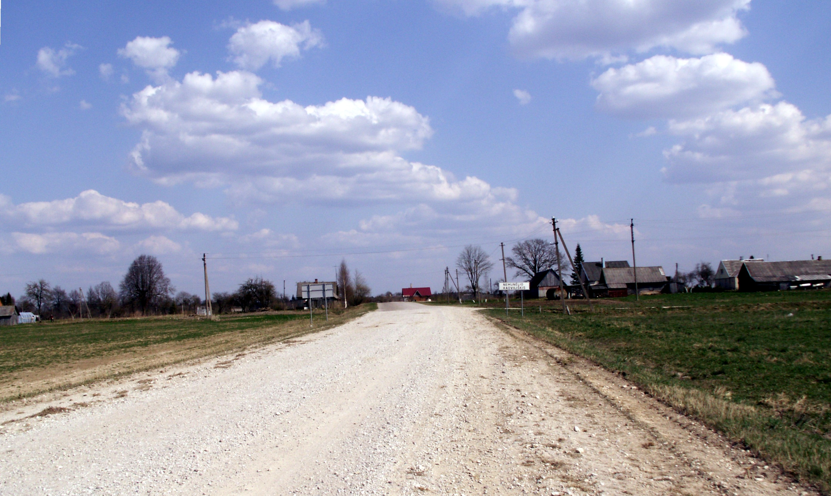 Parupė, Nemunėlio Radviliškis, Biržai district, Lithuania